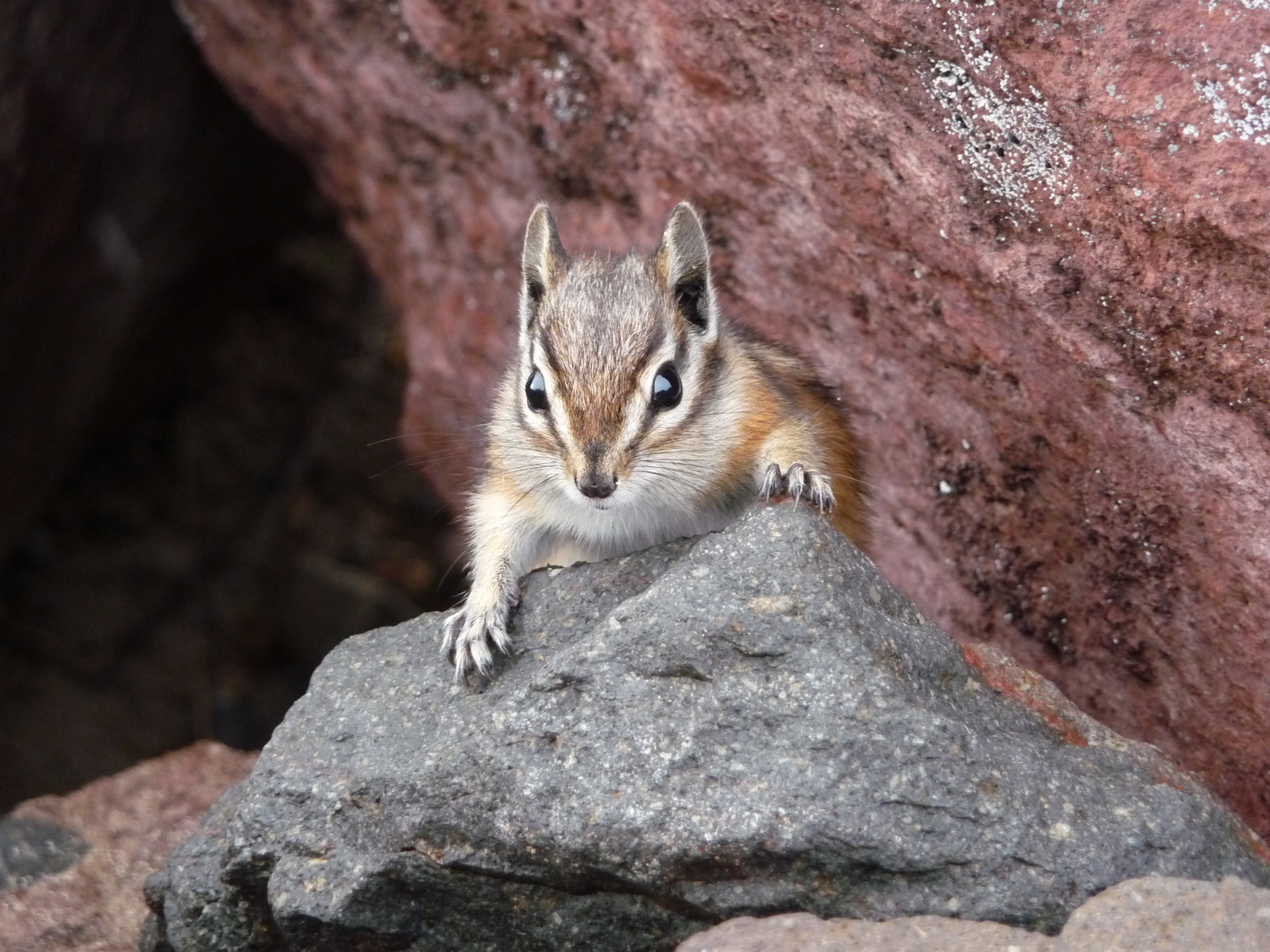 Yellow-pine chipmunk at the Skyline trail, Mount Rainier National Park.